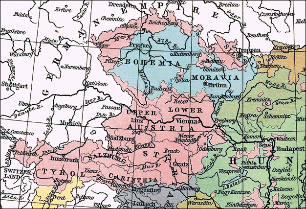 Map of the nationalities in Austro-Hungaria, 1911